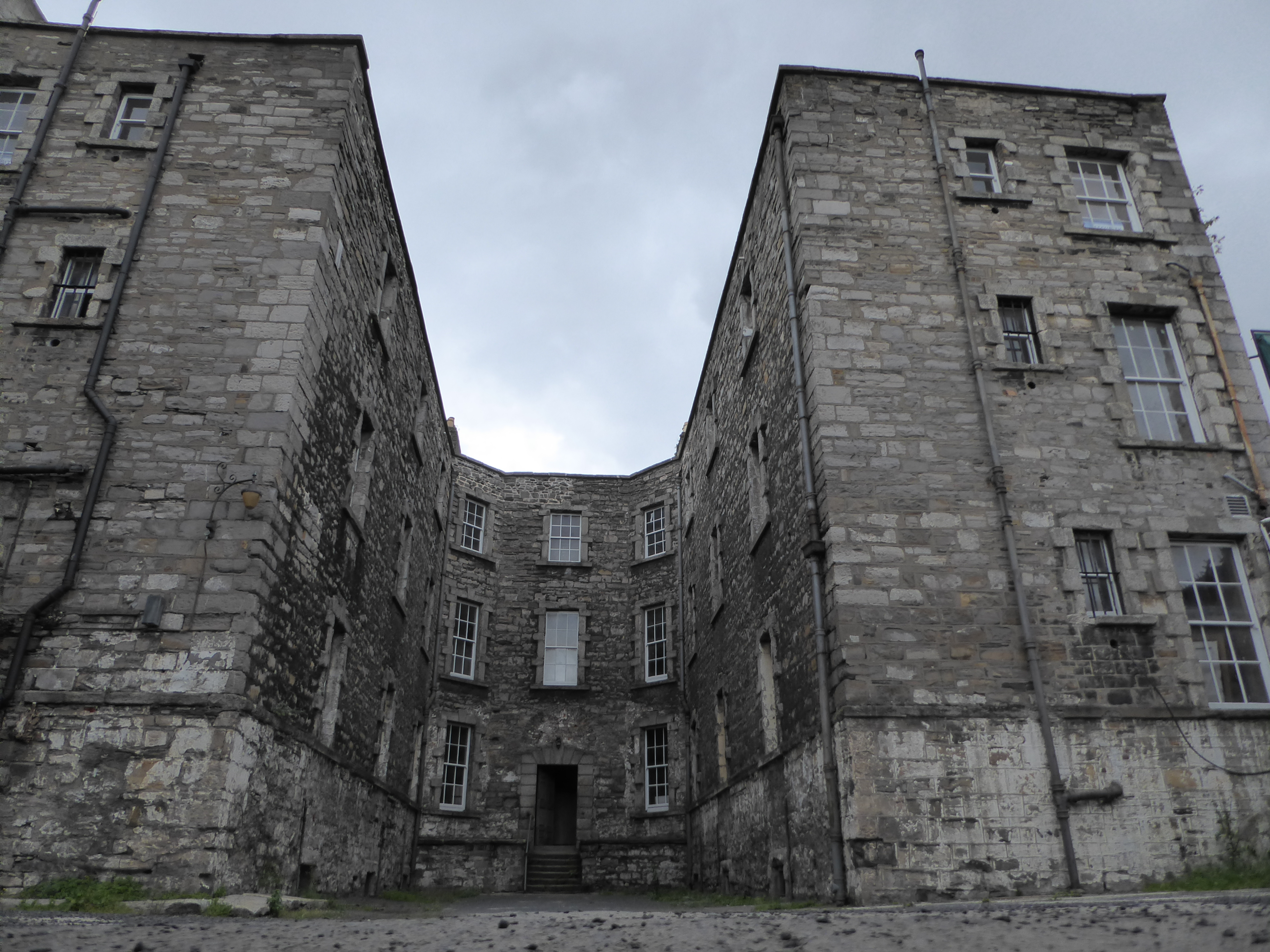 Debtor's Prison, Dublin, situated in Halston Street backing on to Green Street - very difficult to photographs as the property has high walls and a steel gate with no vies inside except for a small gap at the bottom through which I stuck my camera